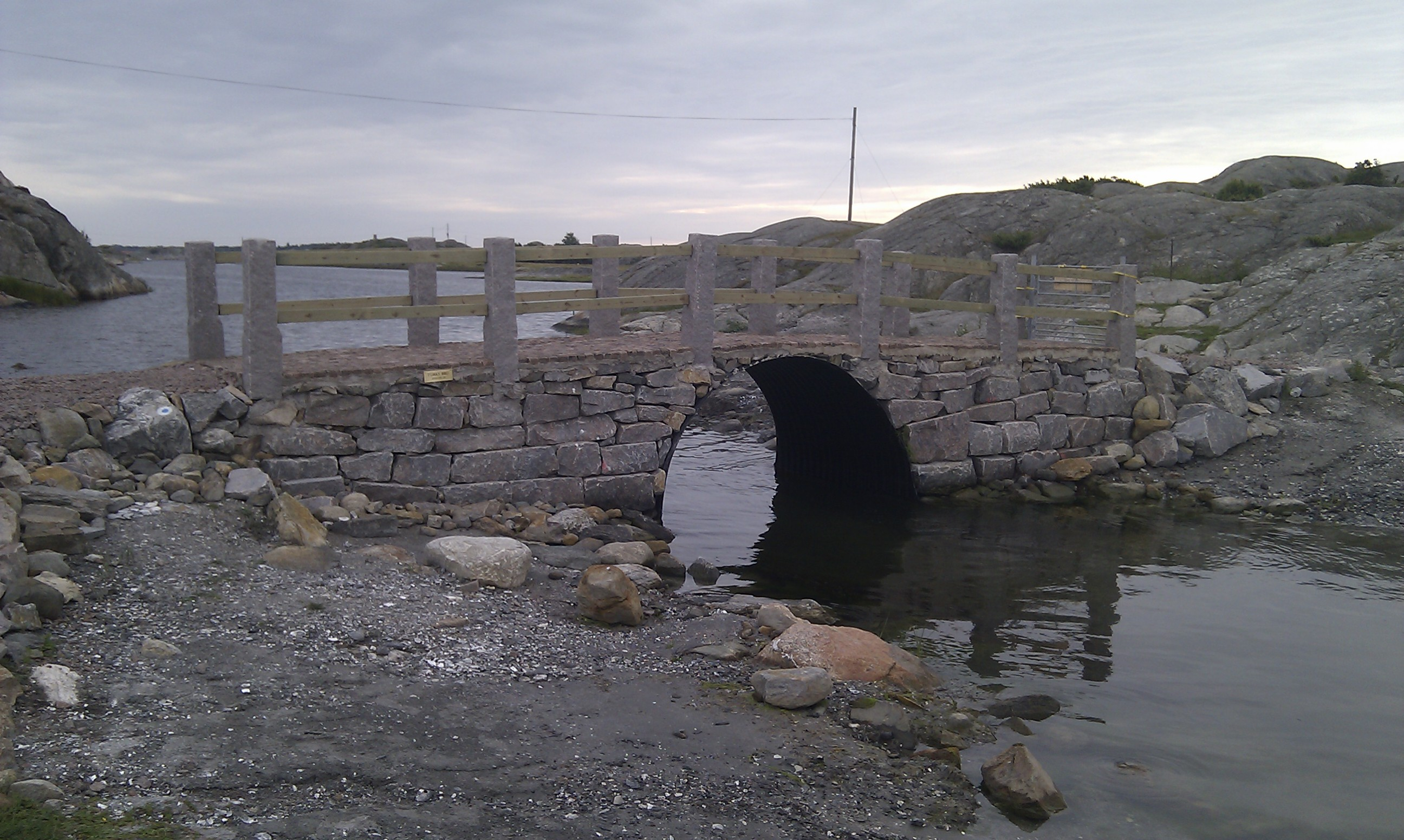 Bridge between the islands of Brännö and Galterö in Gothenburg Southern Archipelago, Sweden.